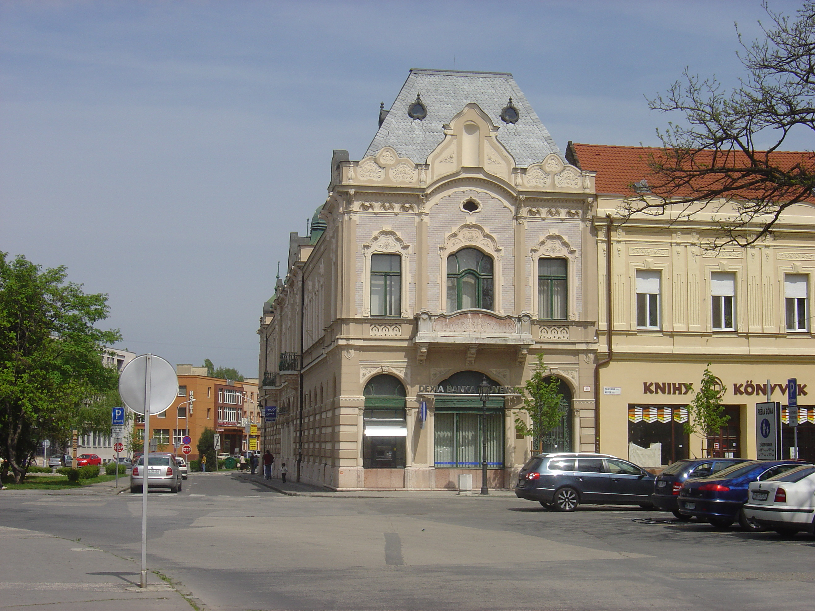 Komárno, Slovakia